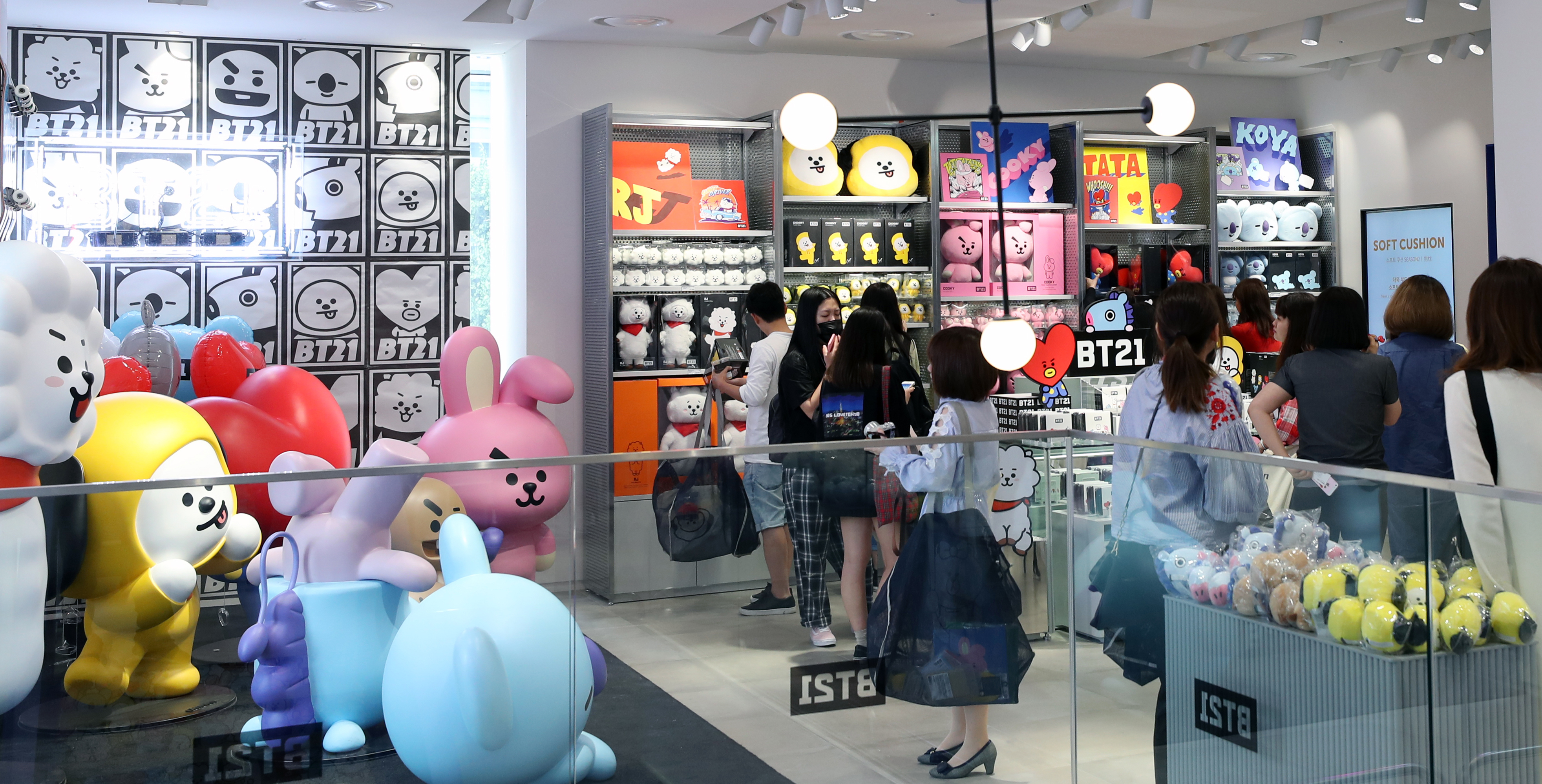 Line Friends Store, ‘BT21’ June 8, 2018 Line Friends Store, Mapo-gu, Seoul